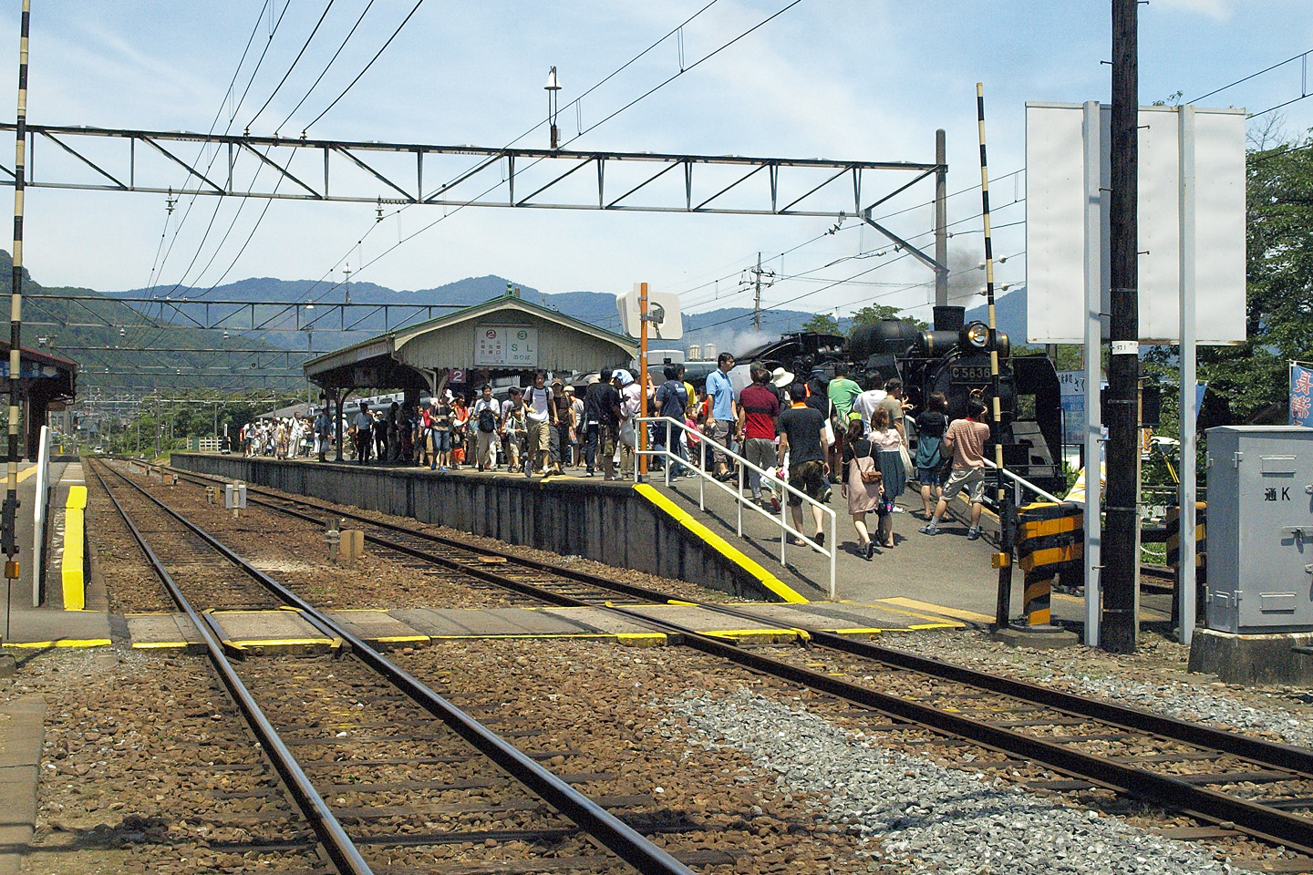 C58 steam locomotive C58 363 on a Paleo Express service at Nagatoro Station on the Chichibu Main Line, in Saitama, Japan